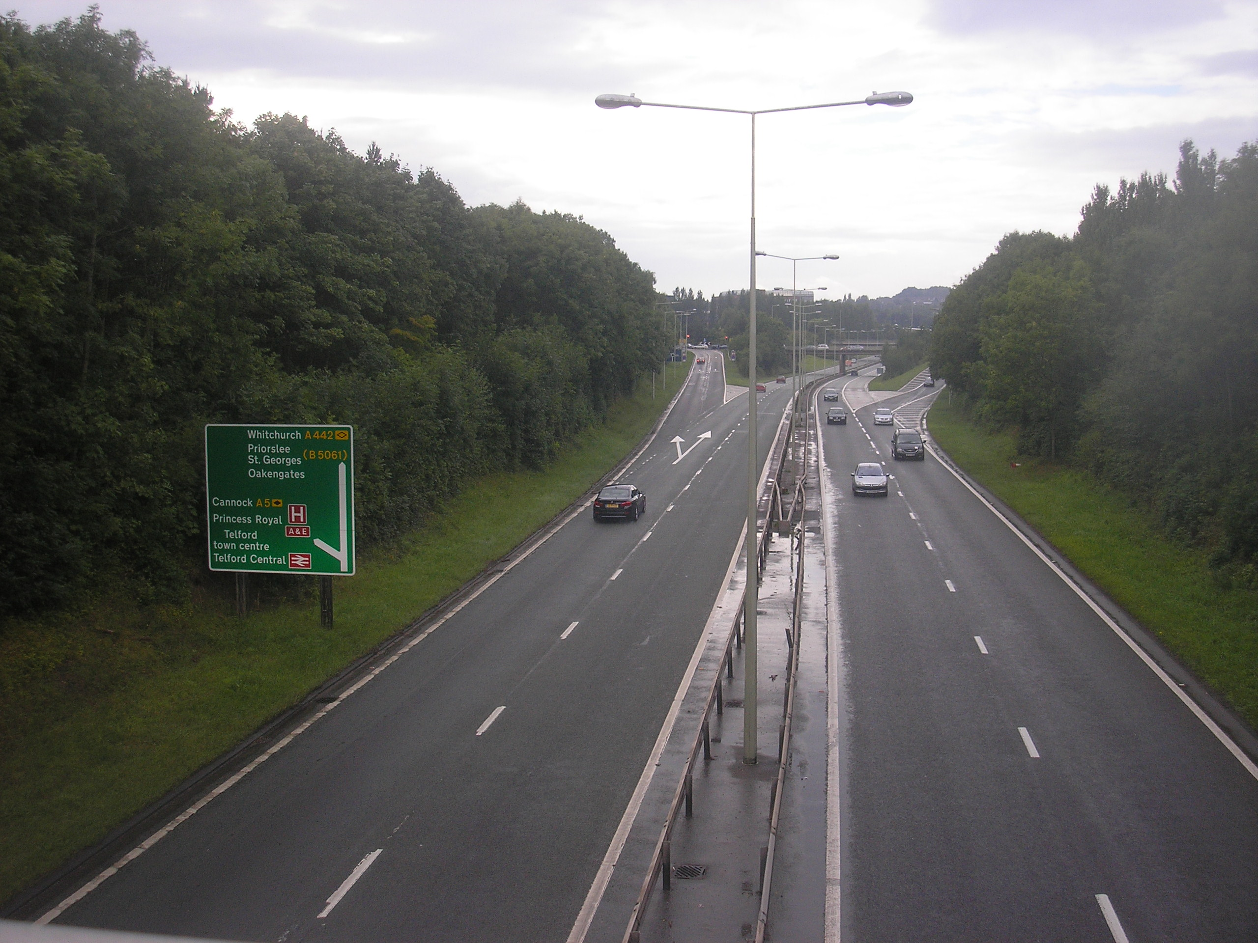 The A442 Queensway in Telford, looking north.